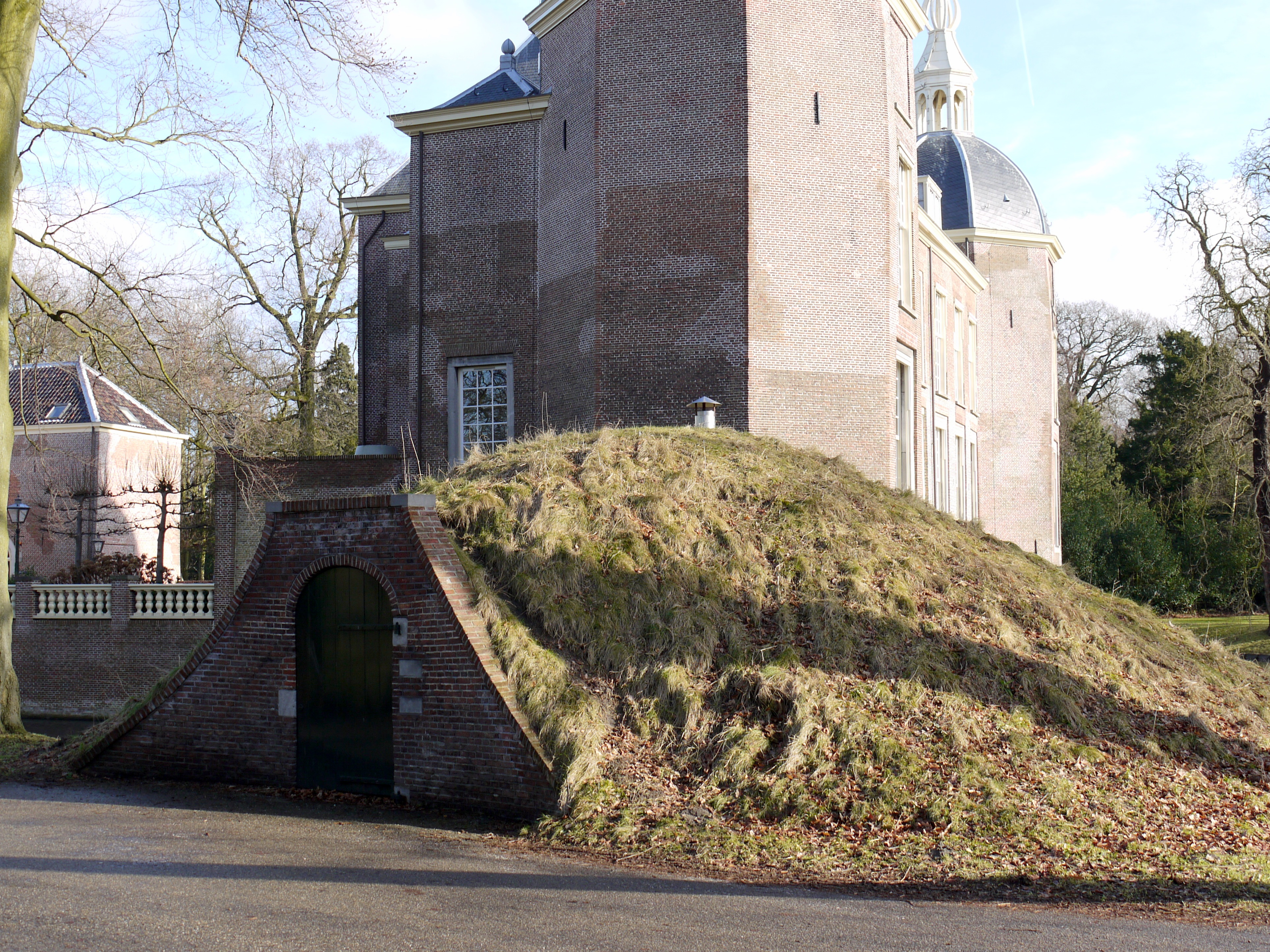 Icehouse at Endegeest castle, Endegeesterstraatweg 5, Oegstgeest. Built 1842. Its national-monument number is 515002.